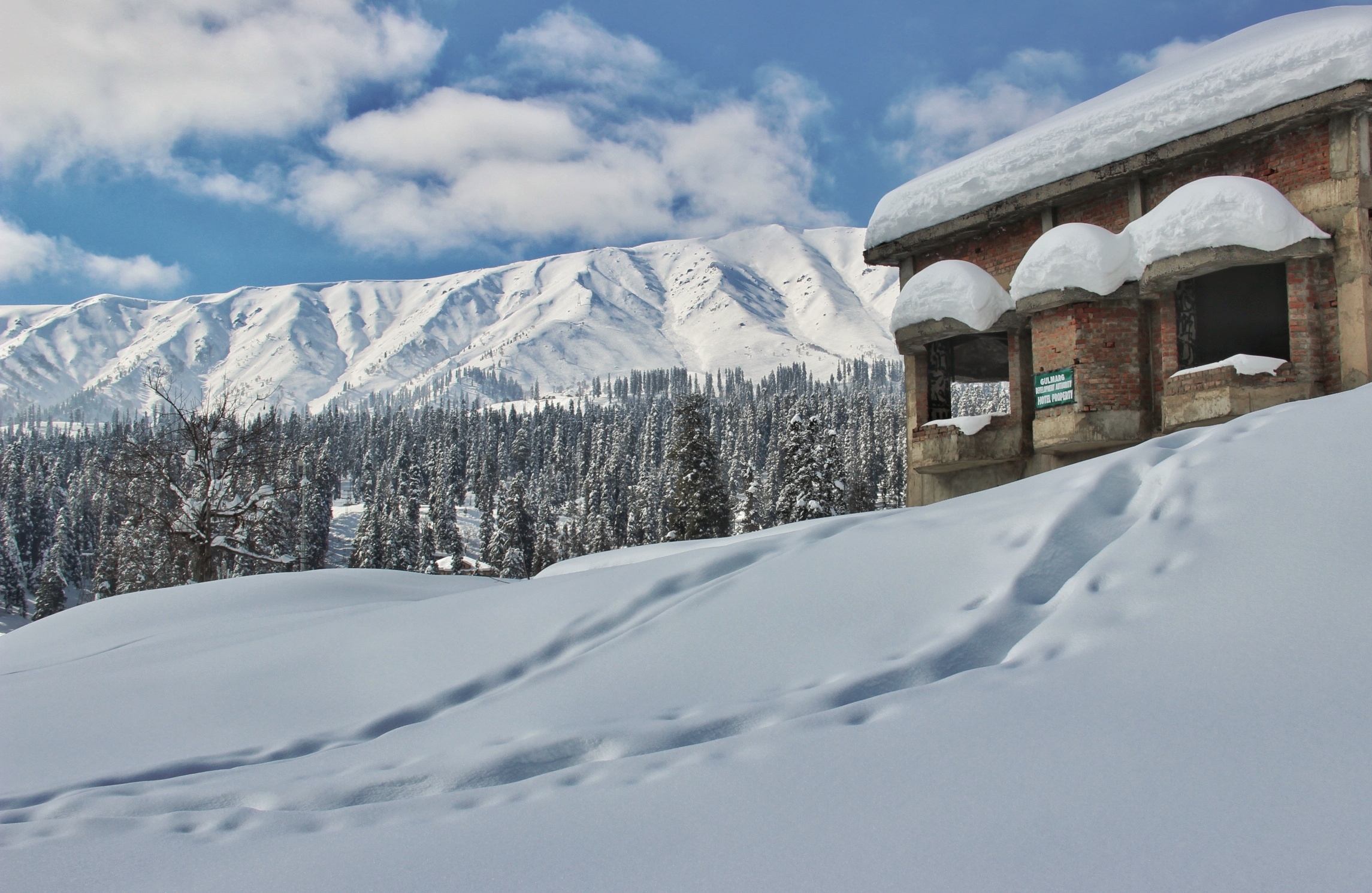 An abandoned GOI hotel structure in Gulmarg